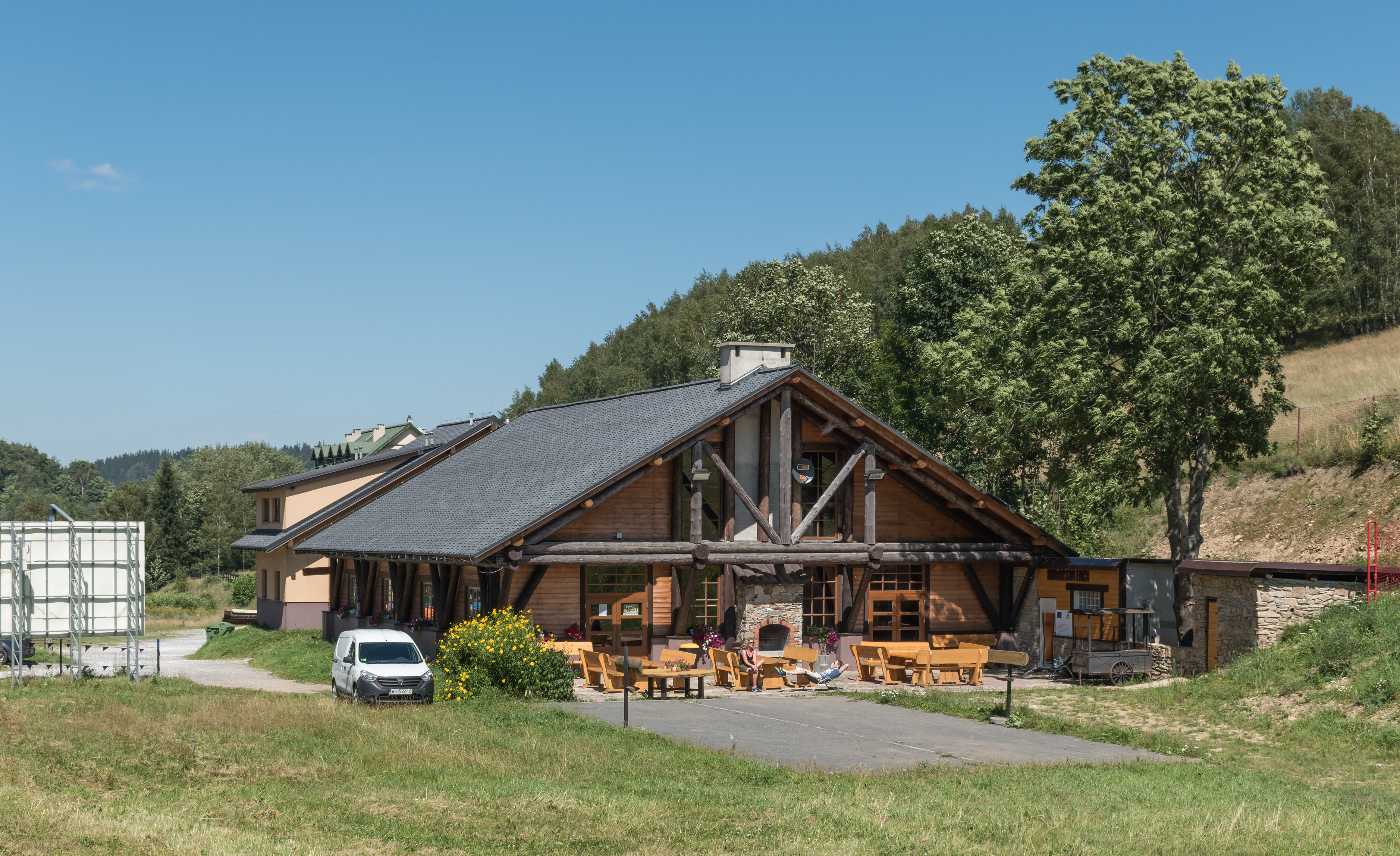 Restaurant in Kamienica